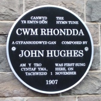 Plaque on Capel Rhondda, Hopkinstown